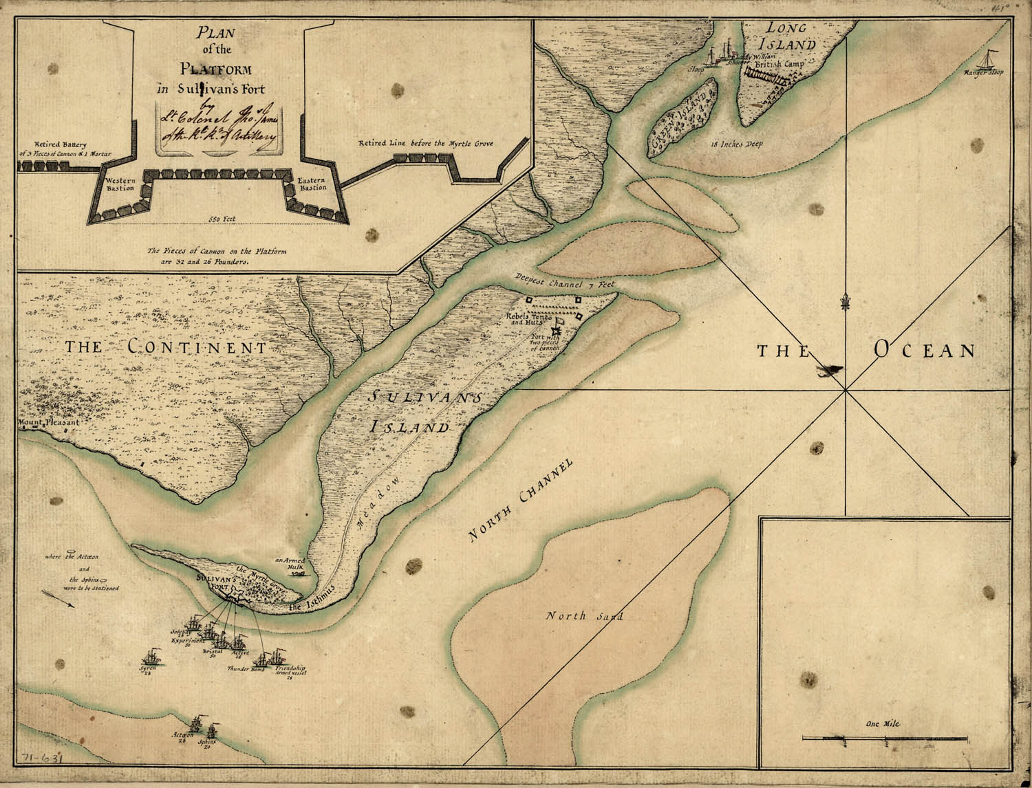 Engraving of a sketch of the 1776 Battle of Sullivan's Island, made by a British Army officer. Caption reads: A plan of the attack of Fort Sulivan, near Charles Town in South Carolina by a squadron of His Majesty's ships on the 28th day of June 1776, with the disposition of the King's land forces and the encampments and entrenchments of the rebels, from the drawings made on the spot.